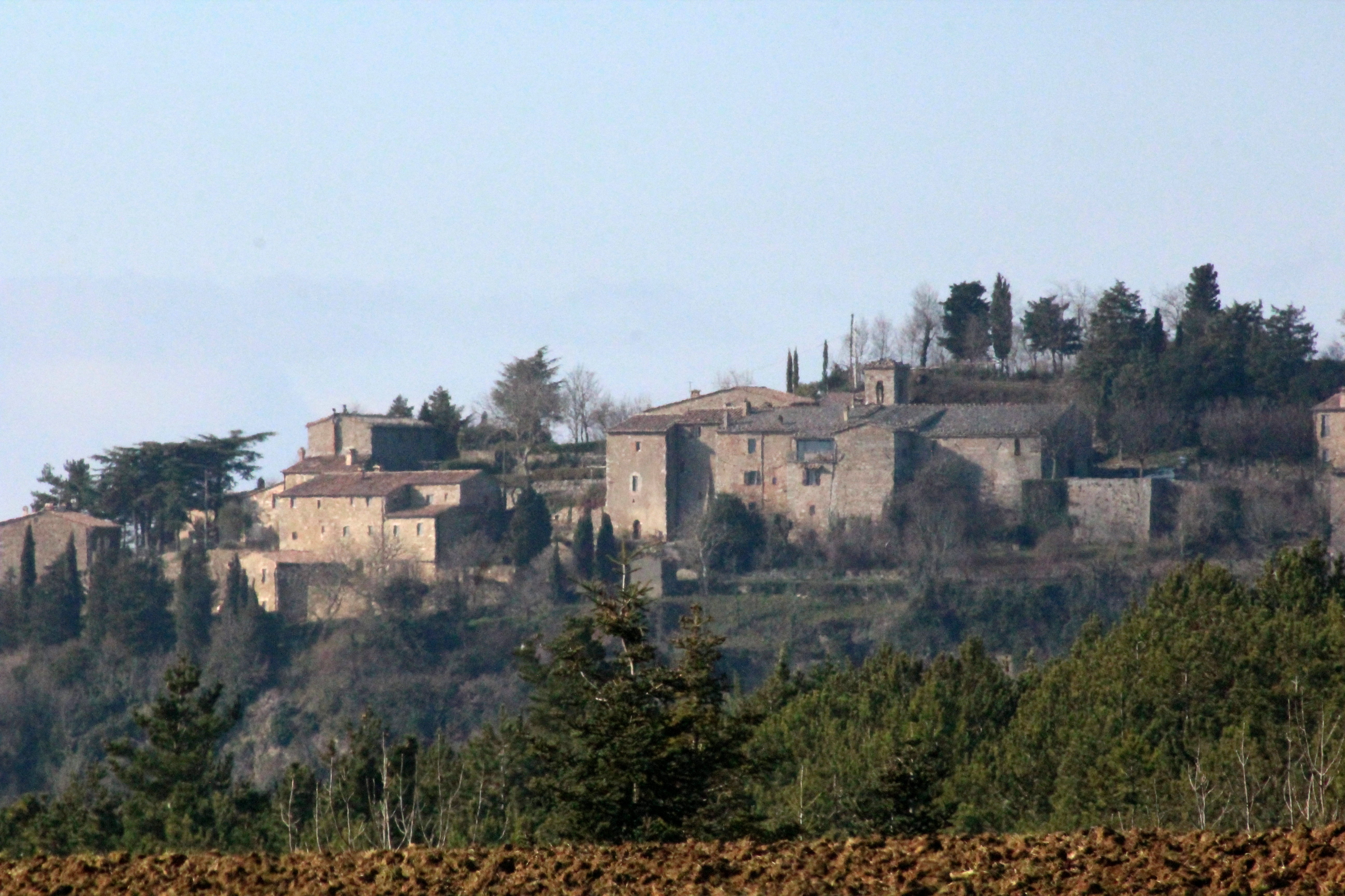 Panorama of Castiglioncello del Trinoro, hamlet of Sarteano, Province of Siena, Tuscany, Italy